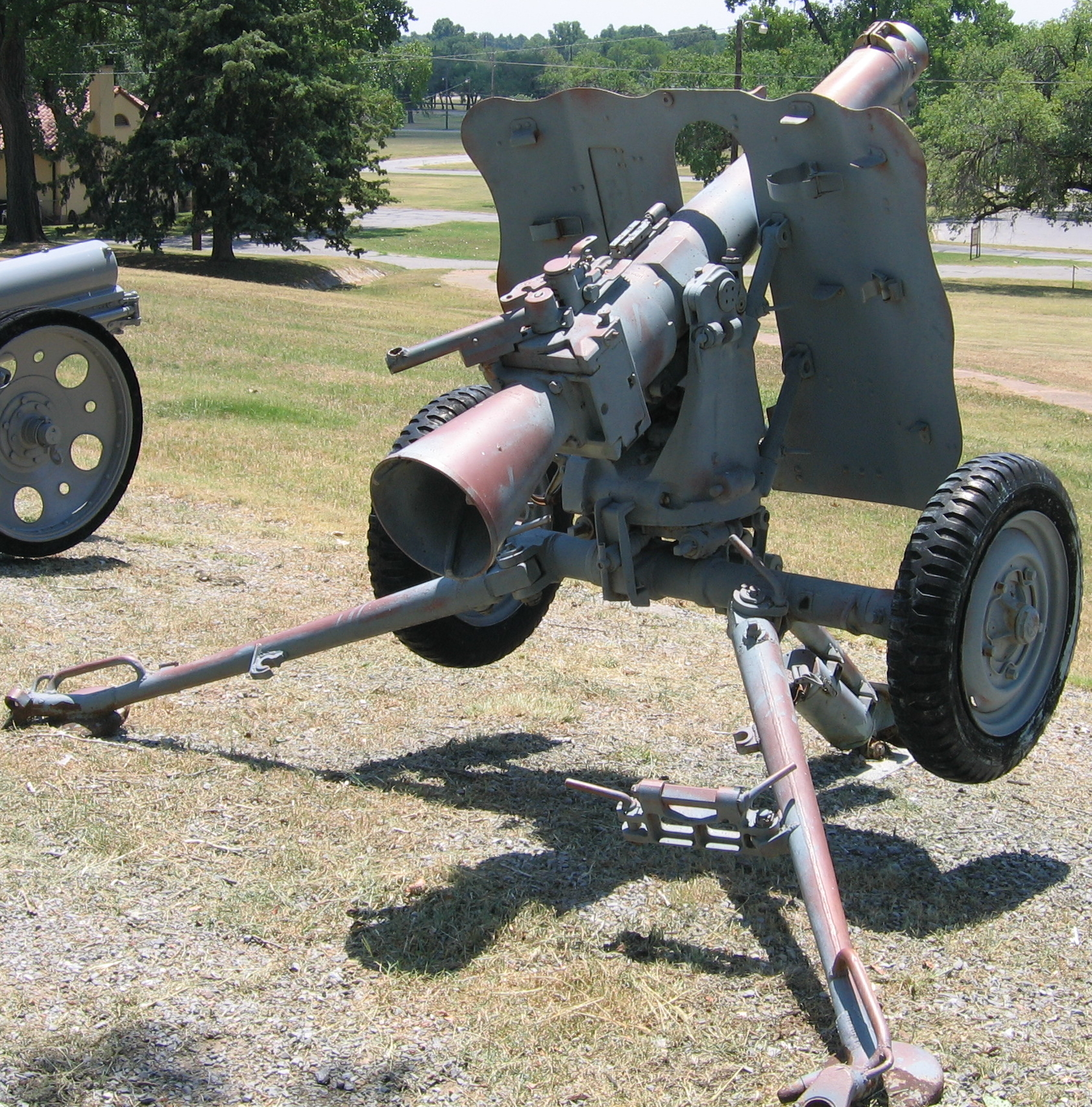 A German 105mm Leichte Geschütz 42 (LG-42) at U.S. Army Field Artillery Museum, Ft. Sill, Oklahoma